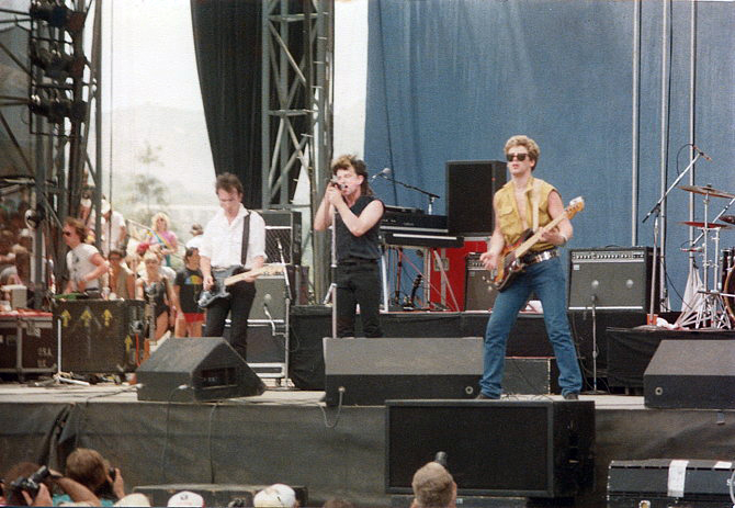 U2 performing at the US Festival in Devore on May 30, 1983